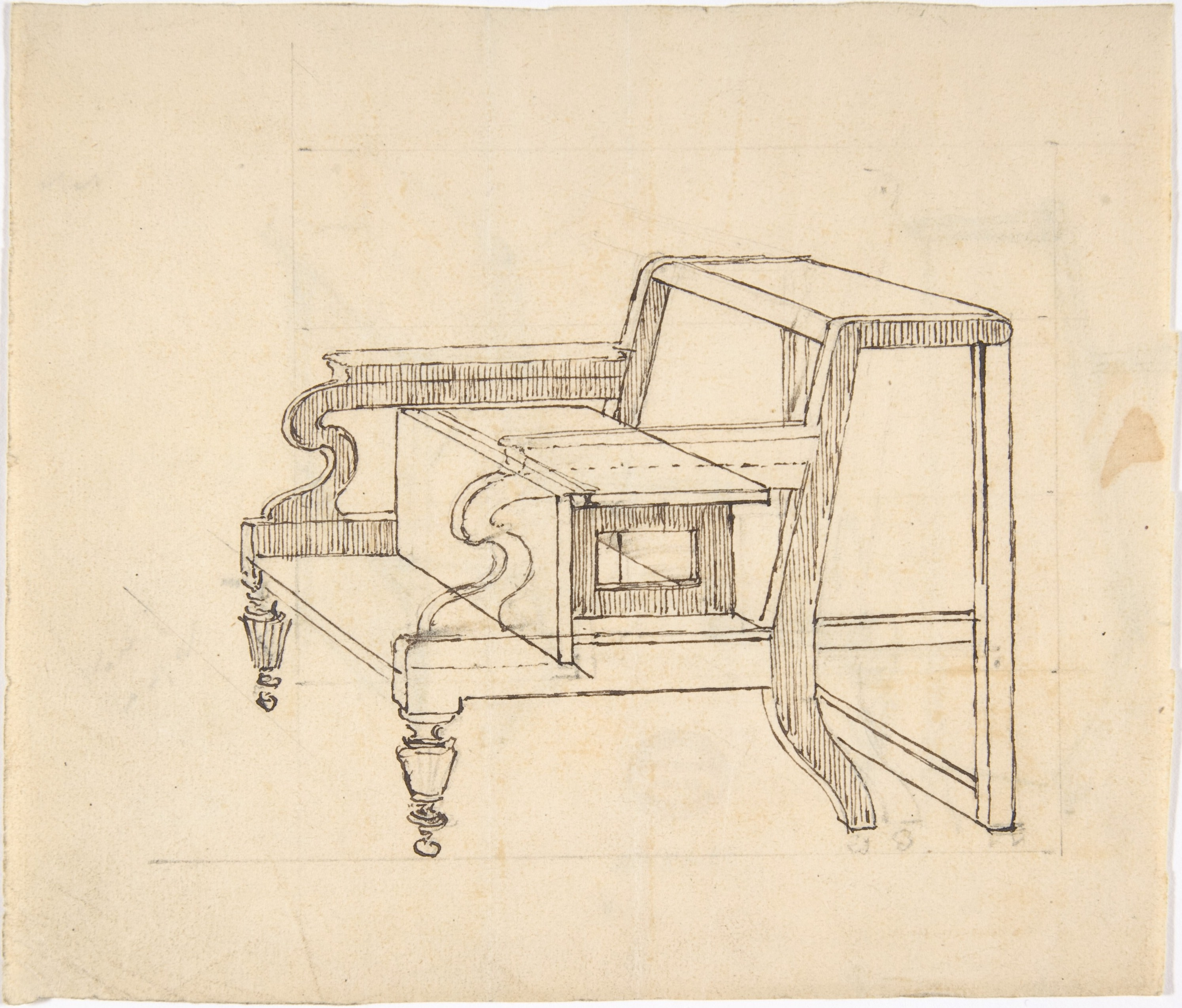 Drawing ; Ornament and Architecture; Drawings